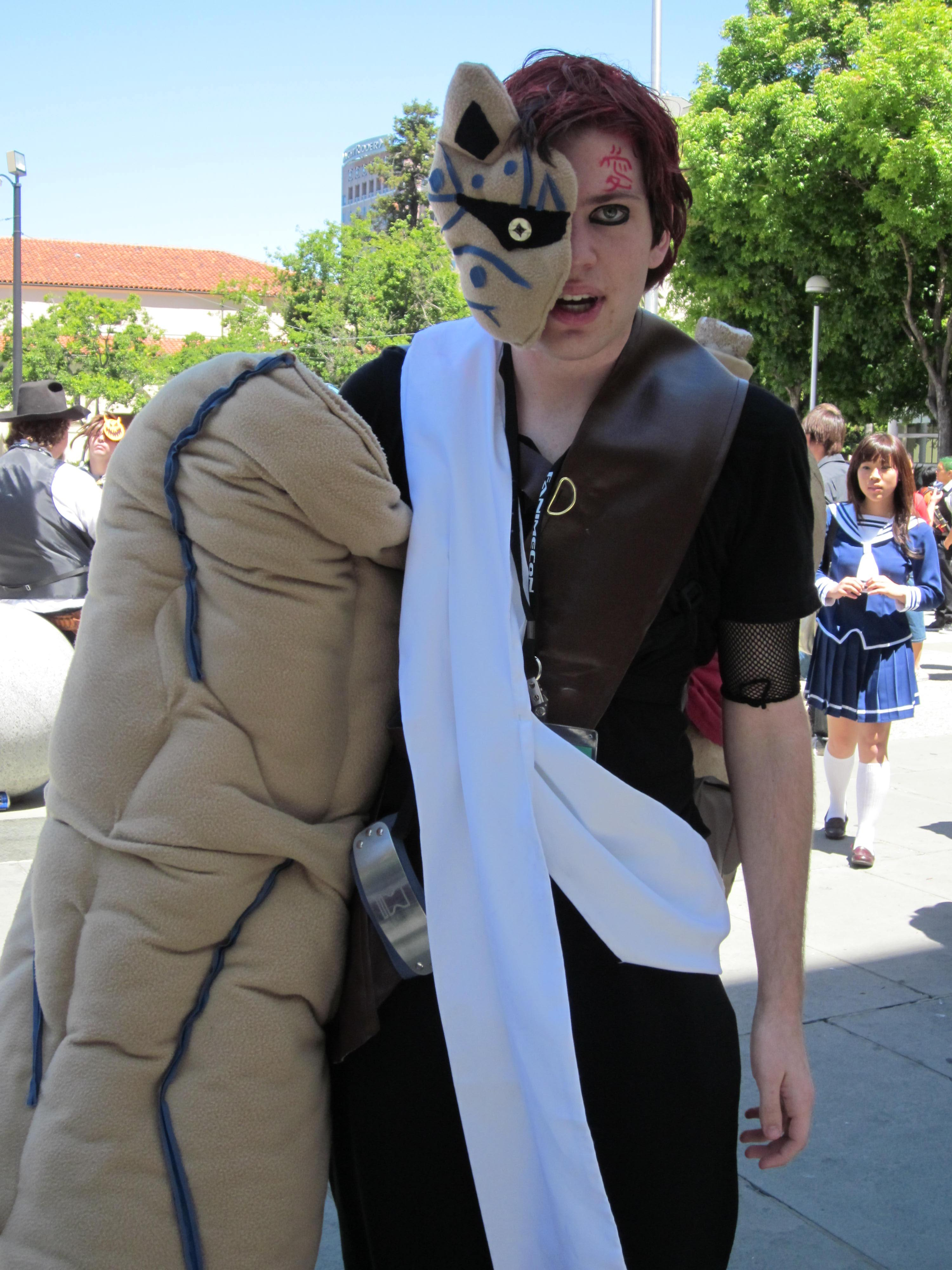 A cosplayer portraying Gaara from Naruto at FanimeCon 2010 in San Jose, California.